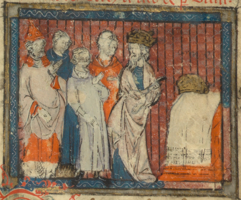 Miniature from the page 75 recto of the medieval manuscript #24369 of the chanson de geste Li coronemenz Looïs (Bibliothèque nationale de France)